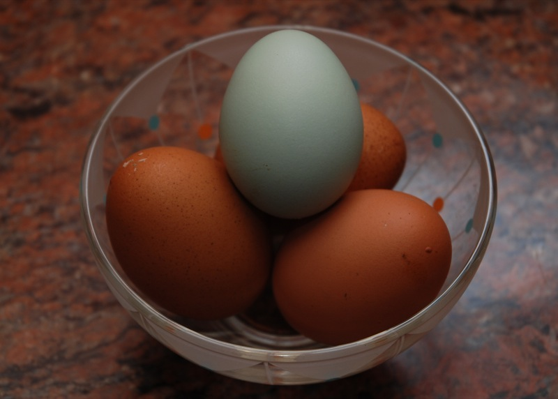 A blue egg laid by an Araucana hen, with brown ones.